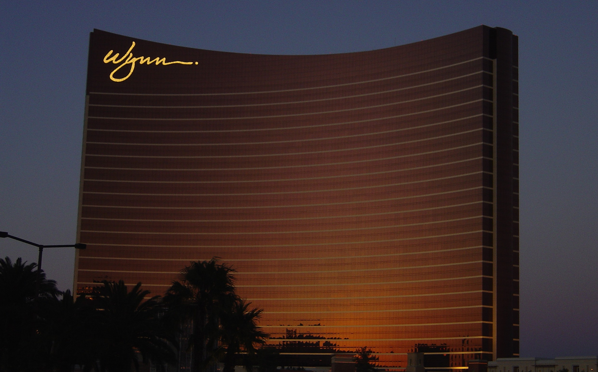 Wynn At Sunset, taken 2005